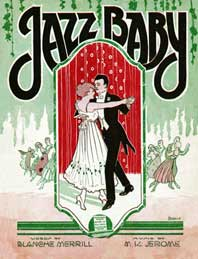 The illustrated music sheet cover for Jazz Baby, from 1919.